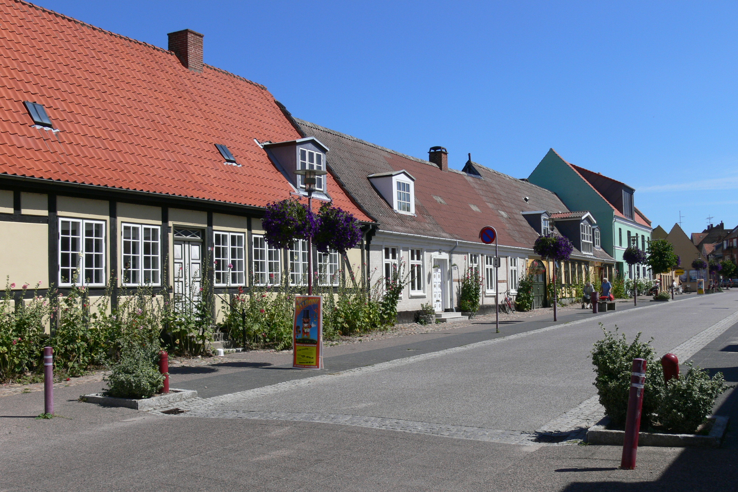 Stubbekøbing ( Falster ). Main street.